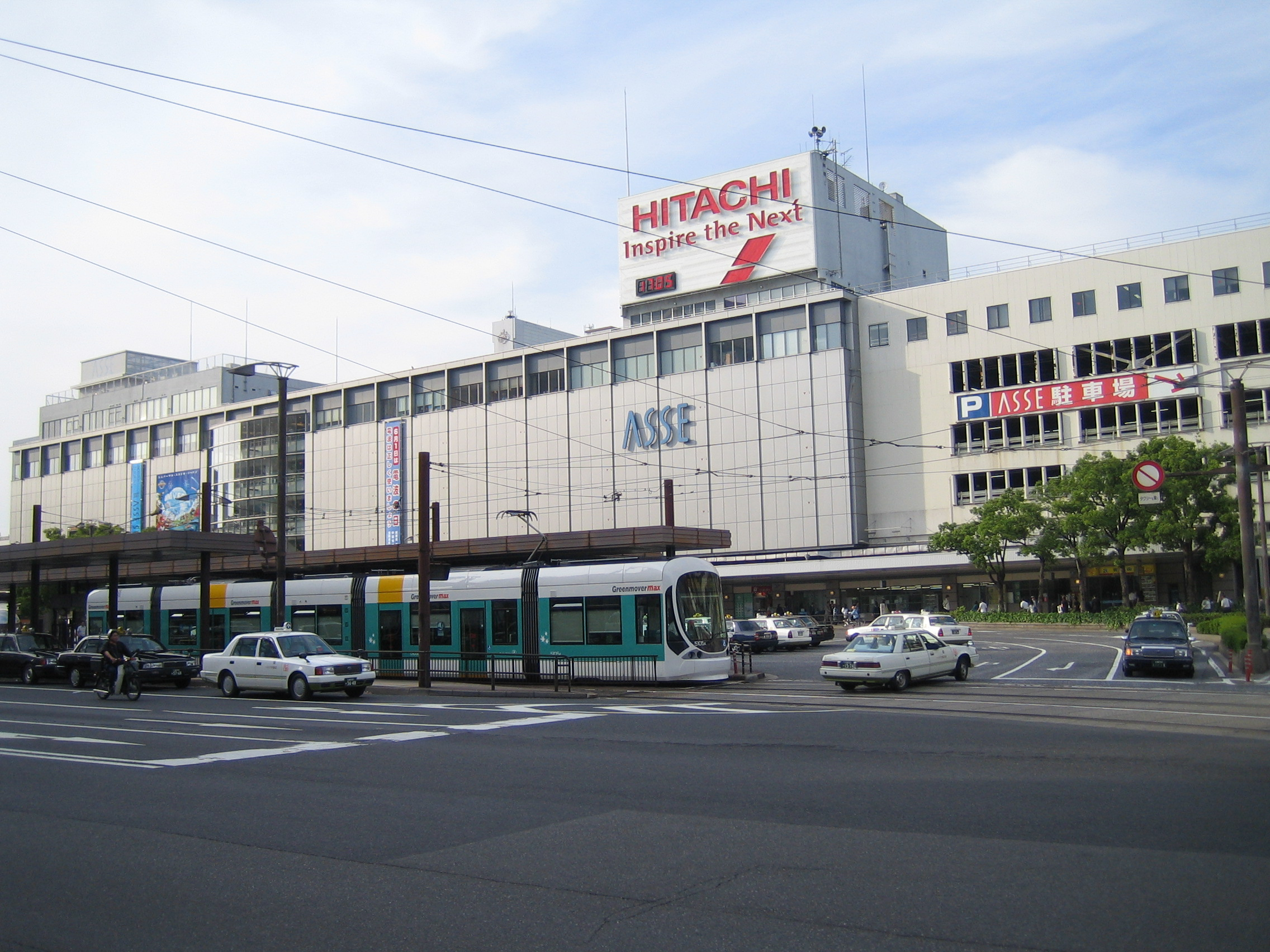 Hiroshima Station and Hiroden Hiroshima Station